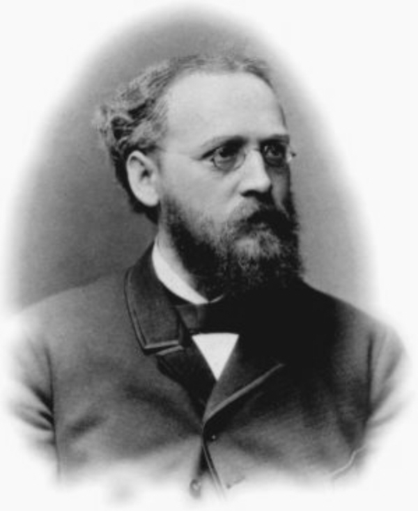 Eugen Baumann (* 12. Dezember 1846 in Cannstatt; † 3. November 1896 in Freiburg im Breisgau)